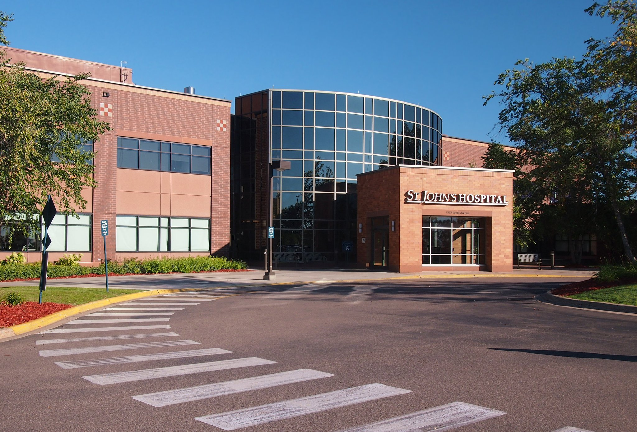 St John's Hospital, 1575 Beam Ave, Maplewood, Minnesota, USA. Viewed from the northwest.